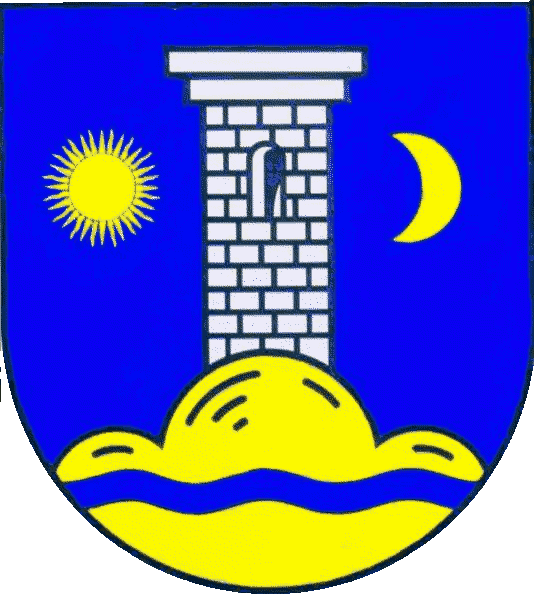 Coat of arms of the municipality Süsel in Schleswig-Holstein, Germany.